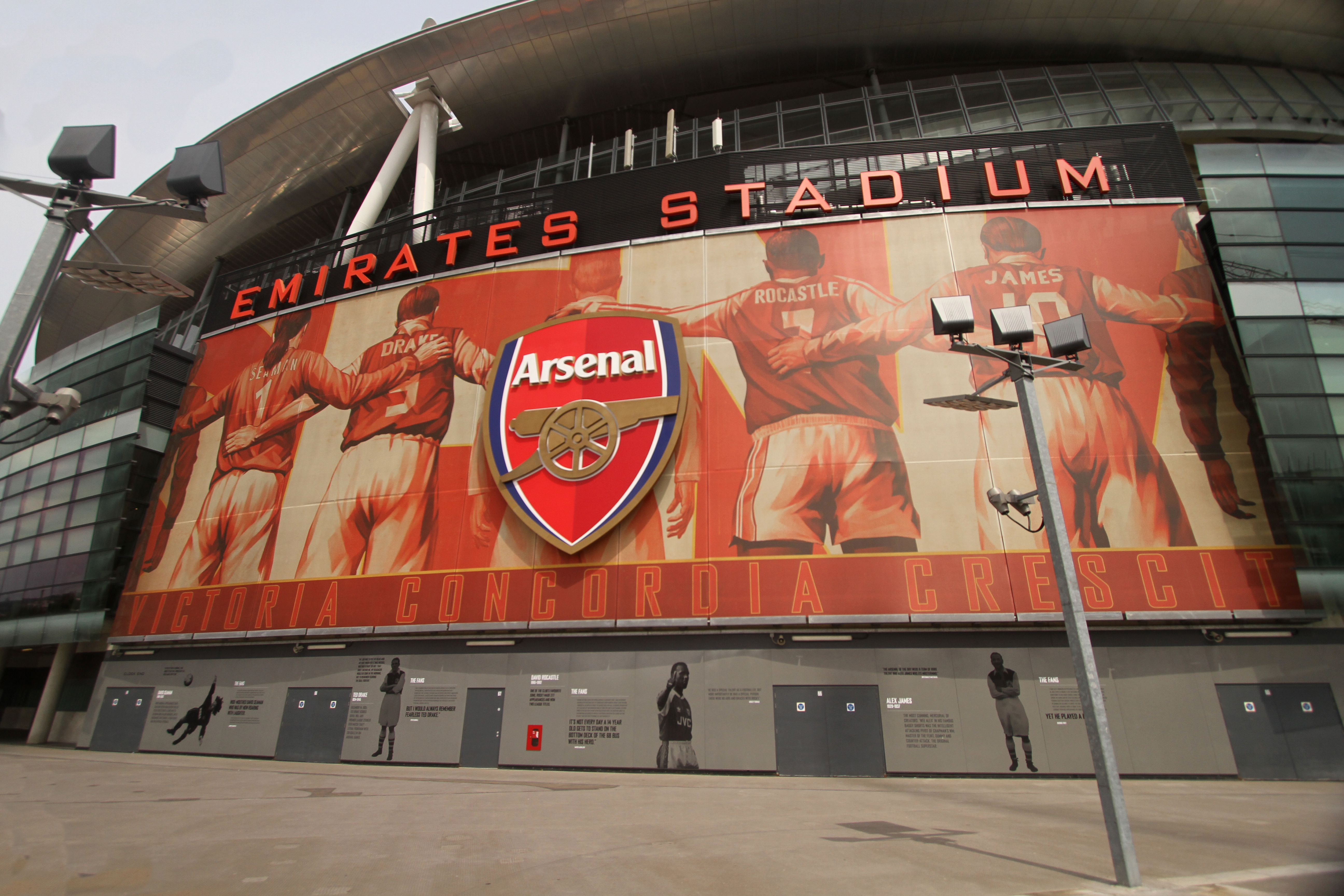 Arsenal Stadium - The Emirates